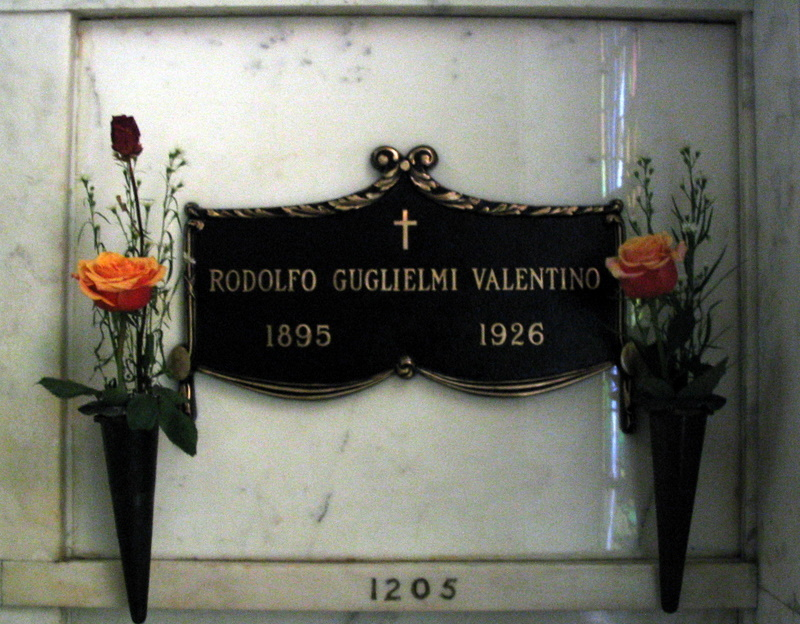 Crypt of Rudolph Valentino at Hollywood Forever Cemetery